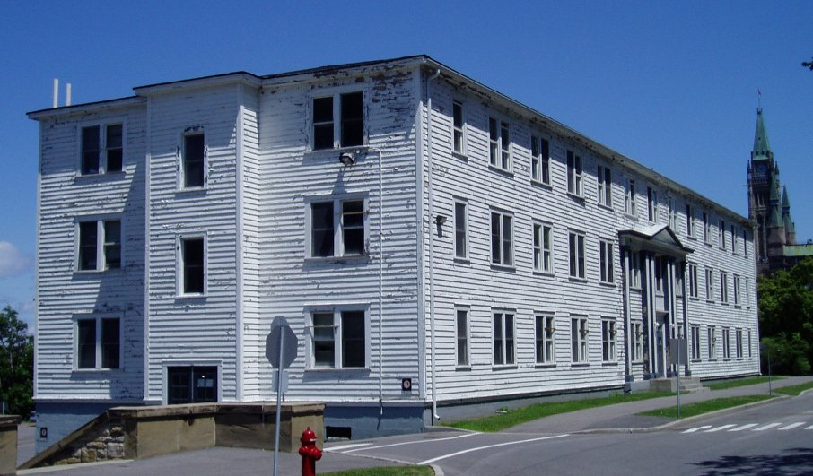 The Justice Annex Building in Ottawa, Ontario, Canada. A three-storey wood frame structure with a shallow hipped roof, it is the last surviving representative example of many similar temporary buildings erected in Ottawa during the Second World War designed in haste to meet the government's wartime accommodation needs. This building was built to house Royal Canadian Mounted Police (RCMP) officers associated with the war effort. It later became the headquarters of C.D. Howe's Department of Munitions and Supply. After the war it was given to the Justice Department and named the Justice Annex.